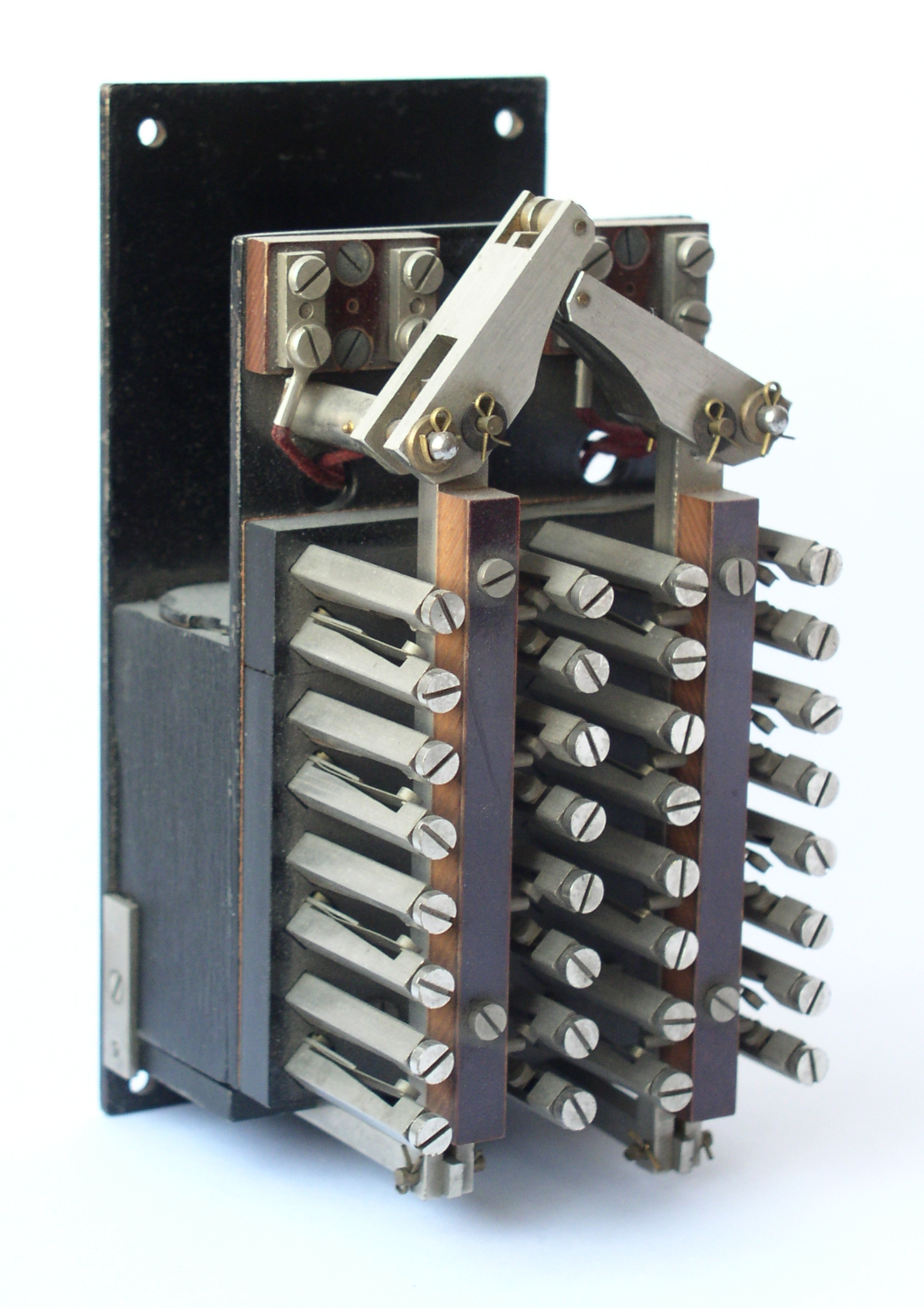 Relay for railway signalling, Manufacturer: VES